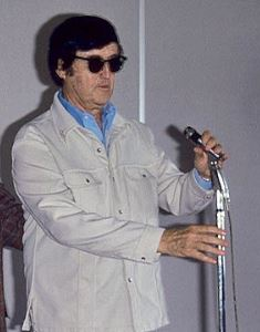 Bob Clampett